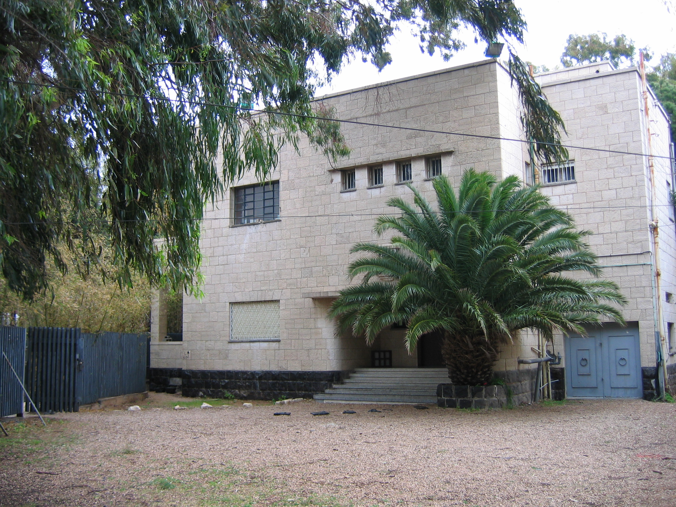 Taken by Asaf Elron on April 1st, 2006.